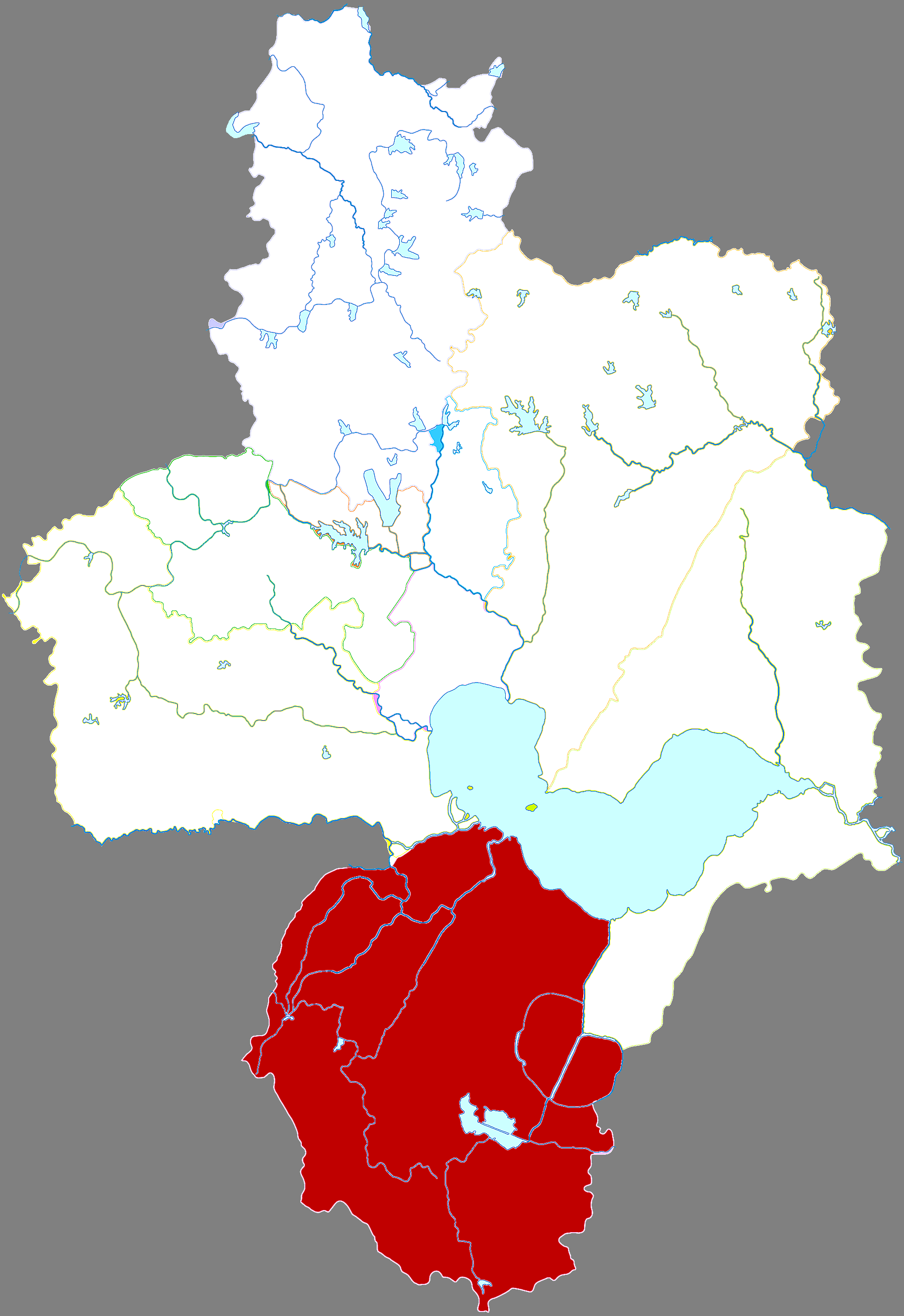 Location of Lujiang county in Hefei city, China